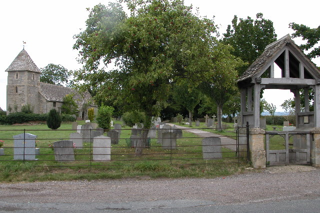 Boddington Church. St. Mary Magdalene Church, Boddington.